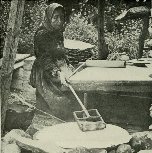 Norwegian peasant baking flat bread